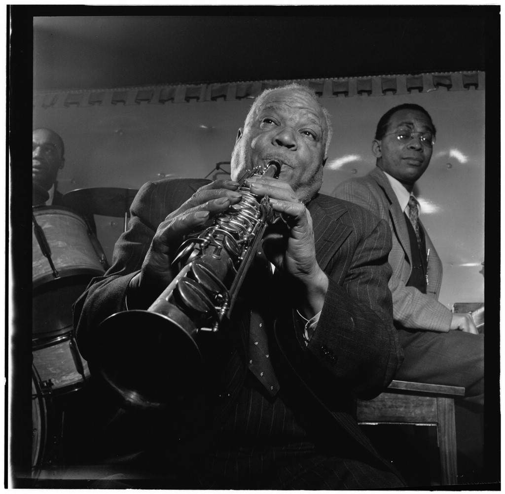 Gottlieb, William P., 1917-, photographer. [Portrait of Sidney Bechet, Freddie Moore, and Lloyd Phillips, Jimmy Ryan's (Club), New York, N.Y., ca. June 1947] 1 negative : b&w ; 2 1/4 x 2 1/4 in. Notes: Gottlieb Collection Assignment No. 022 Reference print available in Music Division, Library of Congress. Purchase William P. Gottlieb Forms part of: William P. Gottlieb Collection (Library of Congress). In: The Record Changer, v. 6, no. 4 (June 47, 1947), p. 9. Subjects: Bechet, Sidney, 1897-1959 Moore, Freddie Phillips, Lloyd Jazz musicians--1940-1950. Saxophonists--1940-1950. Clarinetists--1940-1950. Pianists--1940-1950. Fifty-second Street (New York, N.Y.)--1940-1950. Jimmy Ryan's (Club) Format: Portrait photographs--1940-1950. Group portraits--1940-1950. Film negatives--1940-1950. Rights Info: Mr. Gottlieb has dedicated these works to the public domain, but rights of privacy and publicity may apply. Repository: (negative) Library of Congress, Prints & Photographs Division, Washington D.C. 20540 USA, (reference print) Library of Congress, Music Division, Washington D.C. 20540 USA, Part Of: William P. Gottlieb Collection (DLC) 99-401005 General information about the Gottlieb Collection is available at Persistent URL: Call Number: LC-GLB23- 0052 This work is from the William P. Gottlieb collection at the Library of Congress. Rights and restrictions. In accordance with the wishes of William Gottlieb, the photographs in this collection entered into the public domain on February 16, 2010.